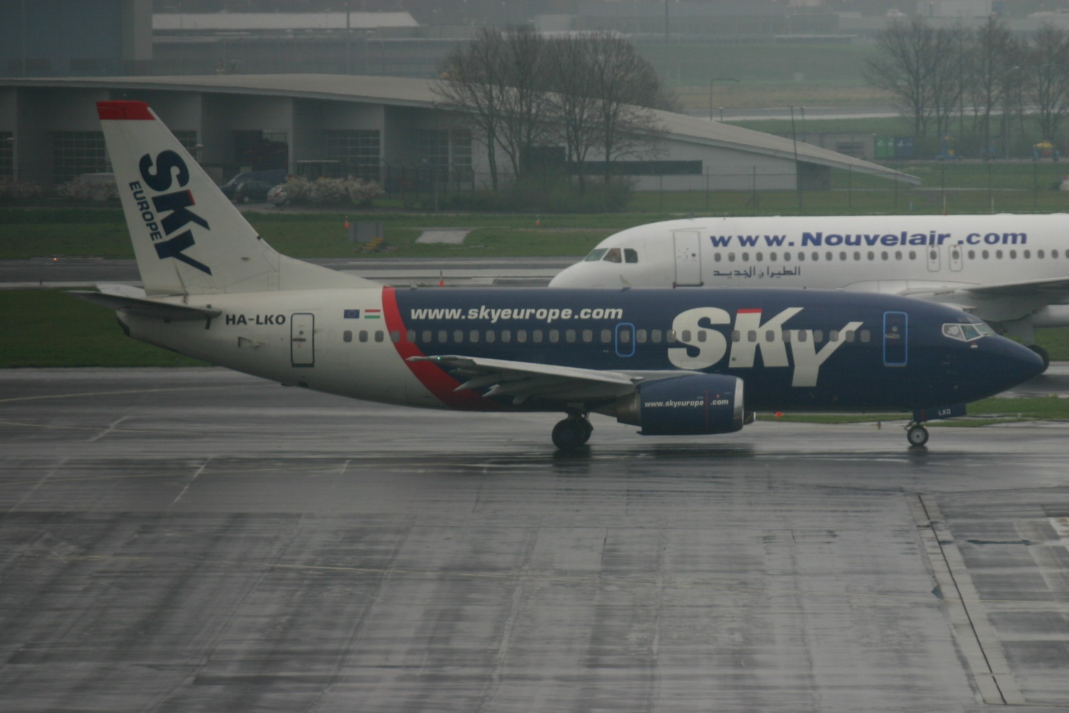 At Amsterdam Schipol